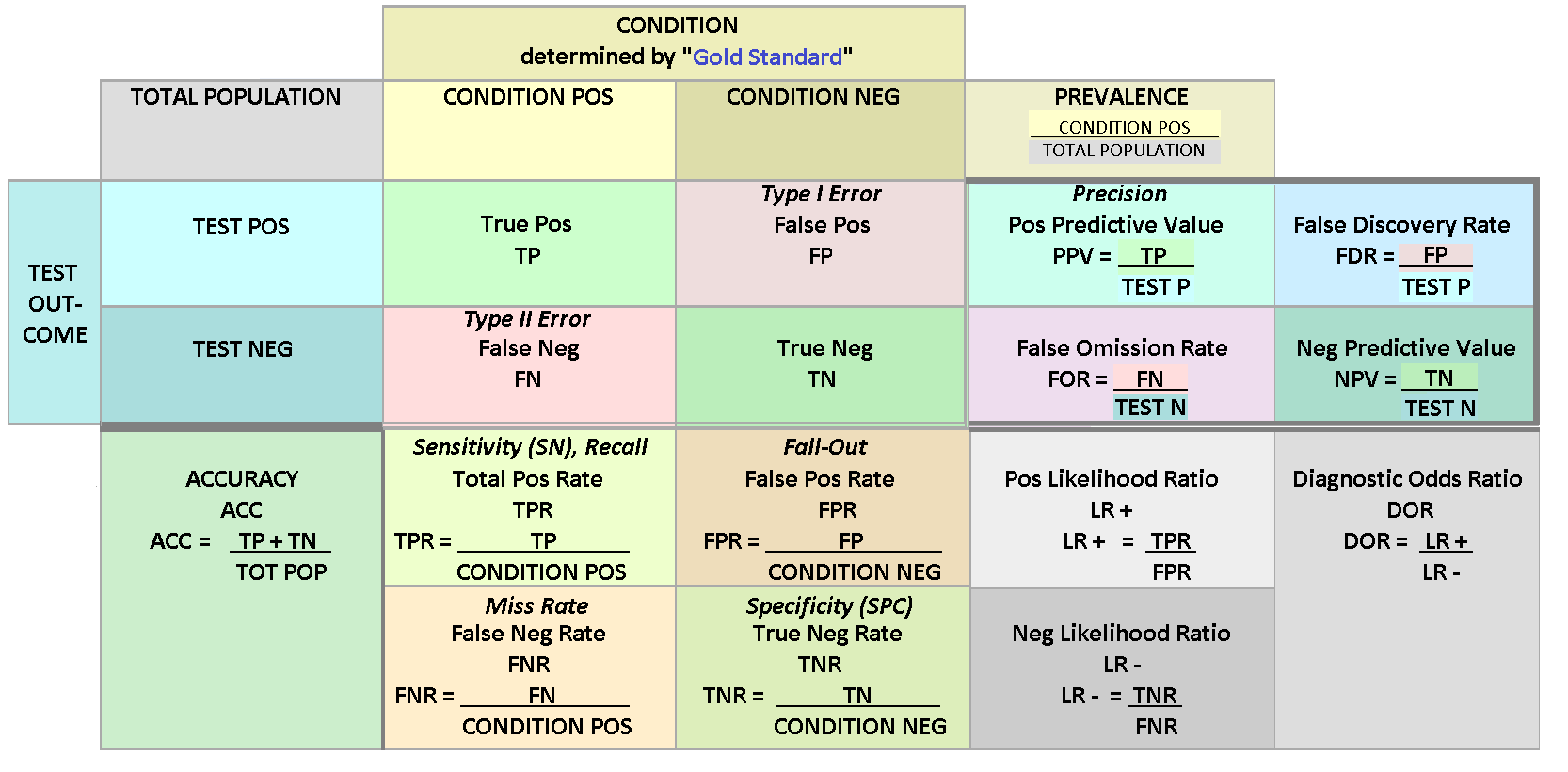 Confusion Matrix, Table of Confusion, Preventive Medicine